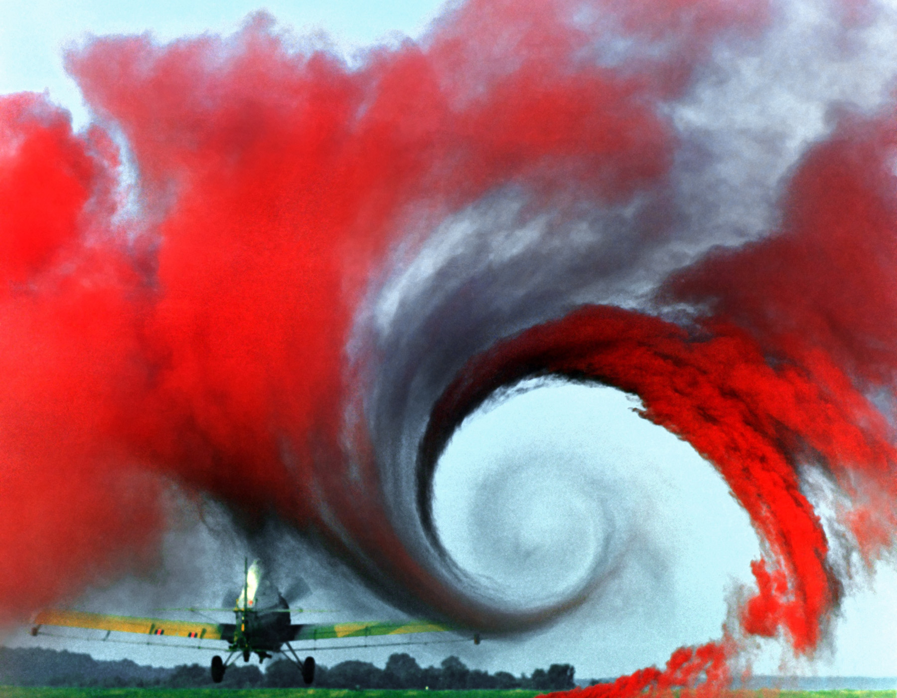 Wake Vortex Study at Wallops Flight Facility The air flow from the wing of this agricultural plane is made visible by a technique that uses colored smoke rising from the ground. The swirl at the wingtip traces the aircraft's wake vortex, which exerts a powerful influence on the flow field behind the plane. Because of wake vortex, the Federal Aviation Administration (FAA) requires aircraft to maintain set distances behind each other when they land. A joint NASA-FAA program aimed at boosting airport capacity, however, is aimed at determining conditions under which planes may fly closer together. NASA researchers are studying wake vortex with a variety of tools, from supercomputers to wind tunnels to actual flight tests in research aircraft. Their goal is to fully understand the phenomenon, then use that knowledge to create an automated system that could predict changing wake vortex conditions at airports. Pilots already know, for example, that they have to worry less about wake vortex in rough weather because windy conditions cause them to dissipate more rapidly.